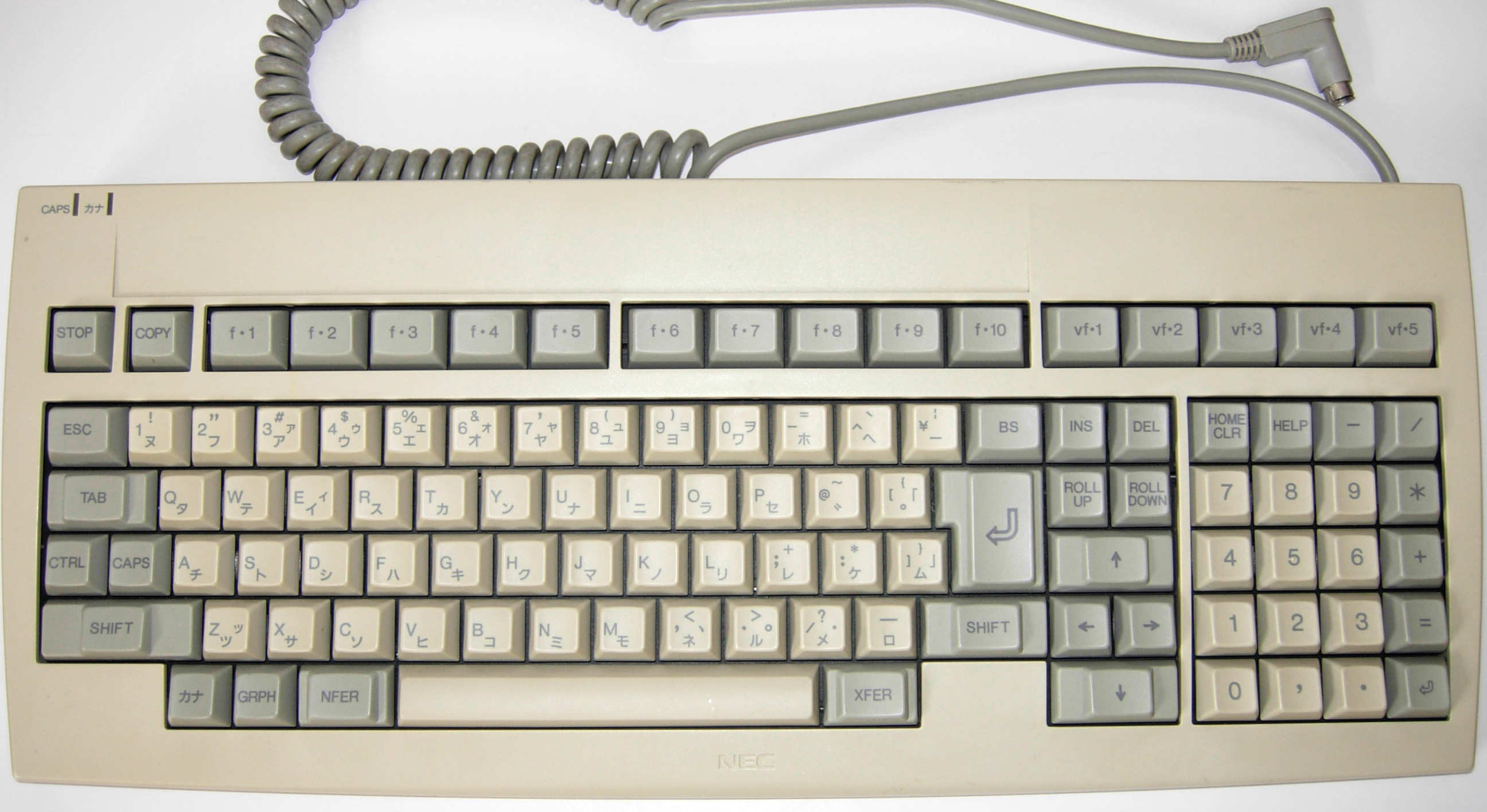 Top view of NEC PC-9821 series early model keyboard.